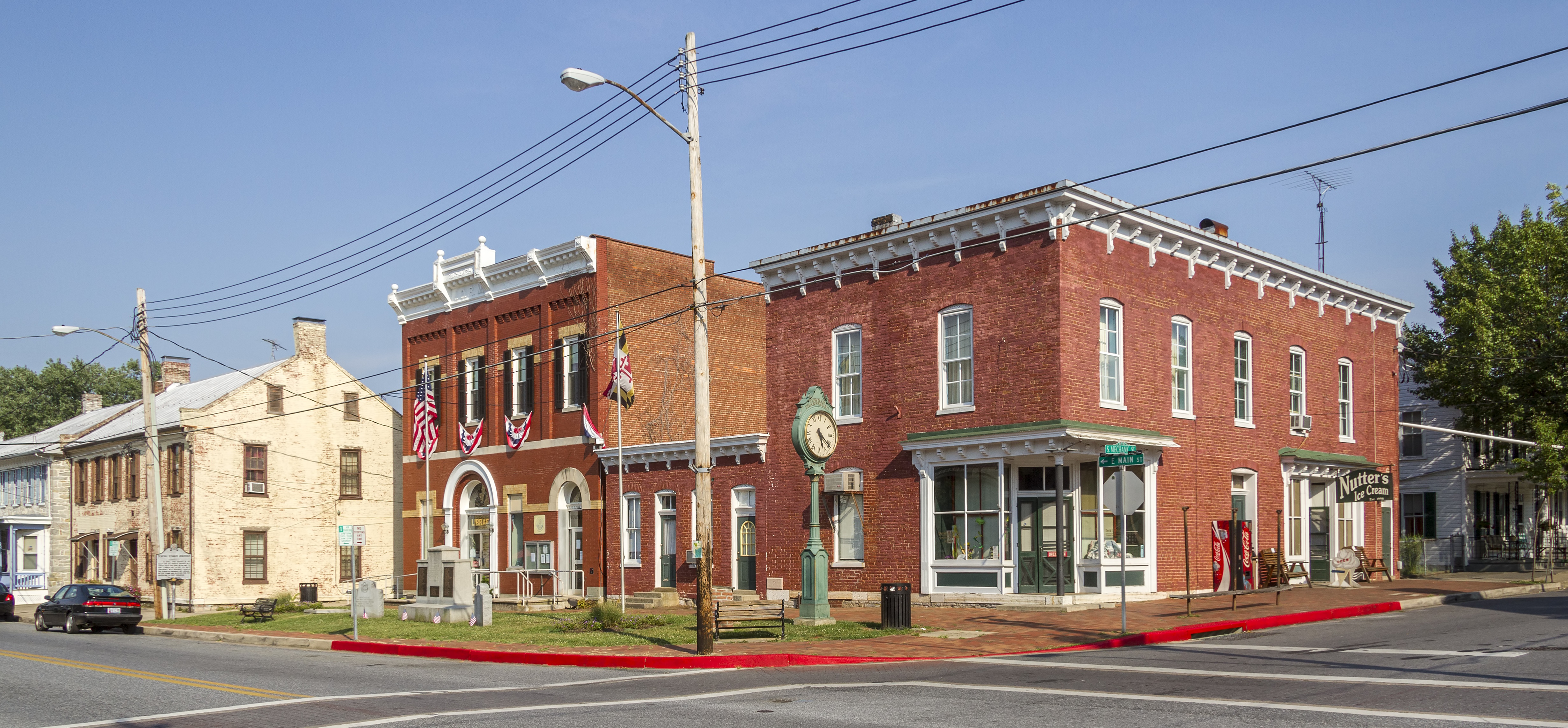 Historic town center of Sharpsburg, western Maryland.